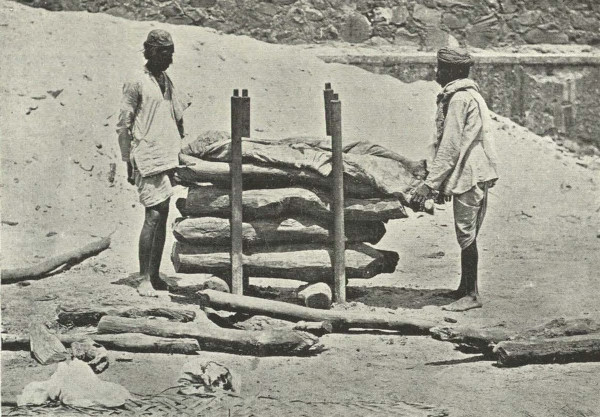 Cremation is usually employed by the Hindus.